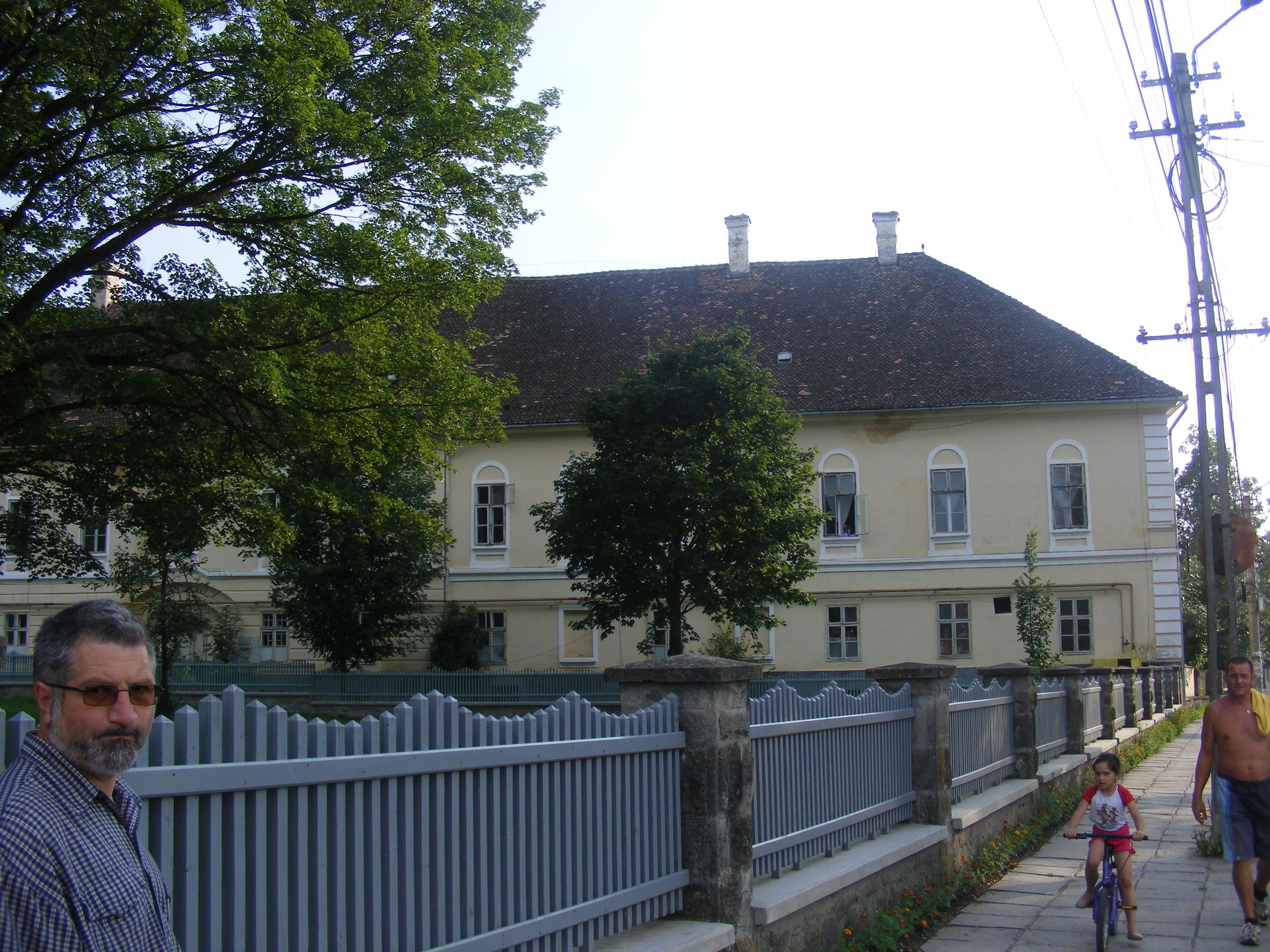 The Csík seat council office, Csíkszerda (Miercurea-Ciuc)